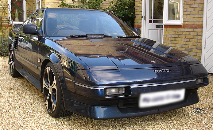 Toyota MR2 MK1 Front, right hand drive, Japanese